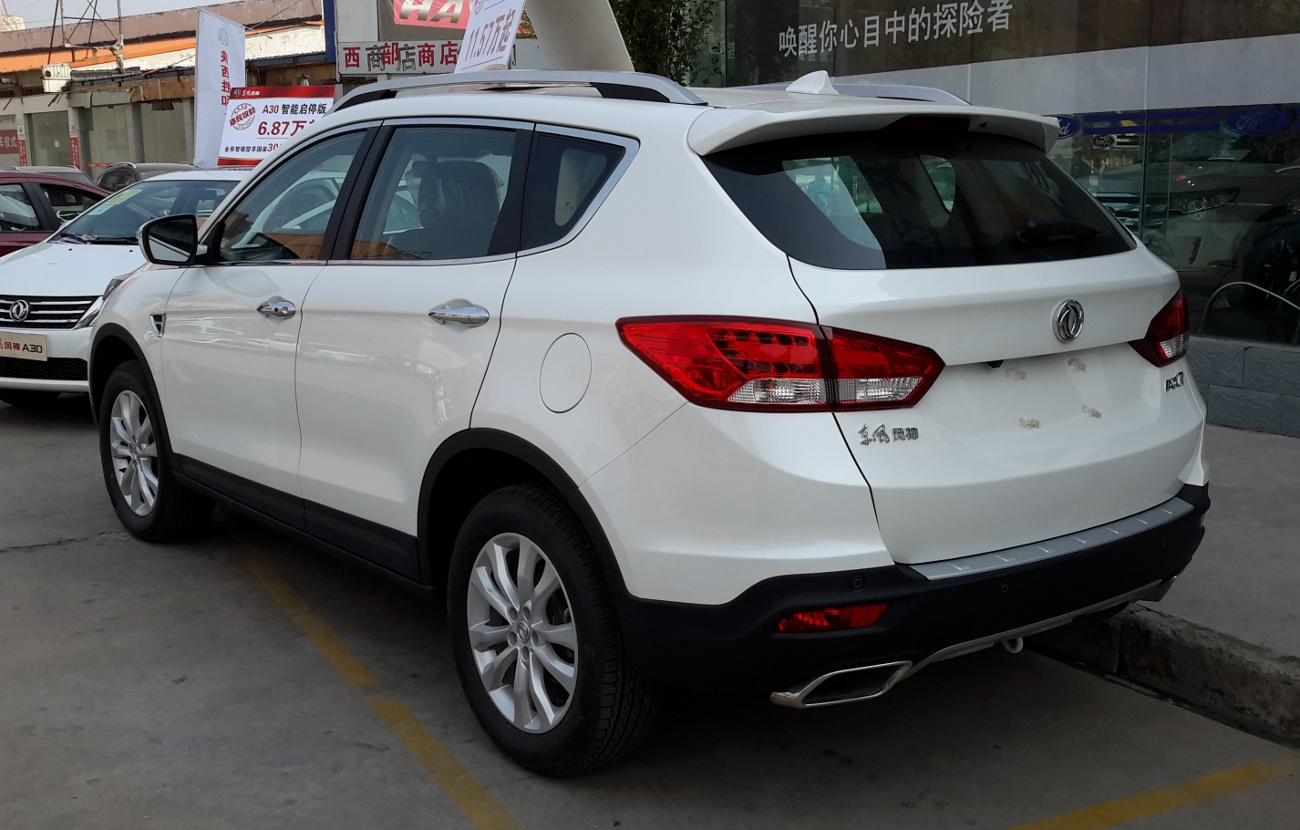 Dongfeng Fengshen AX7 photographed in Xi'an, Shaanxi province, China.